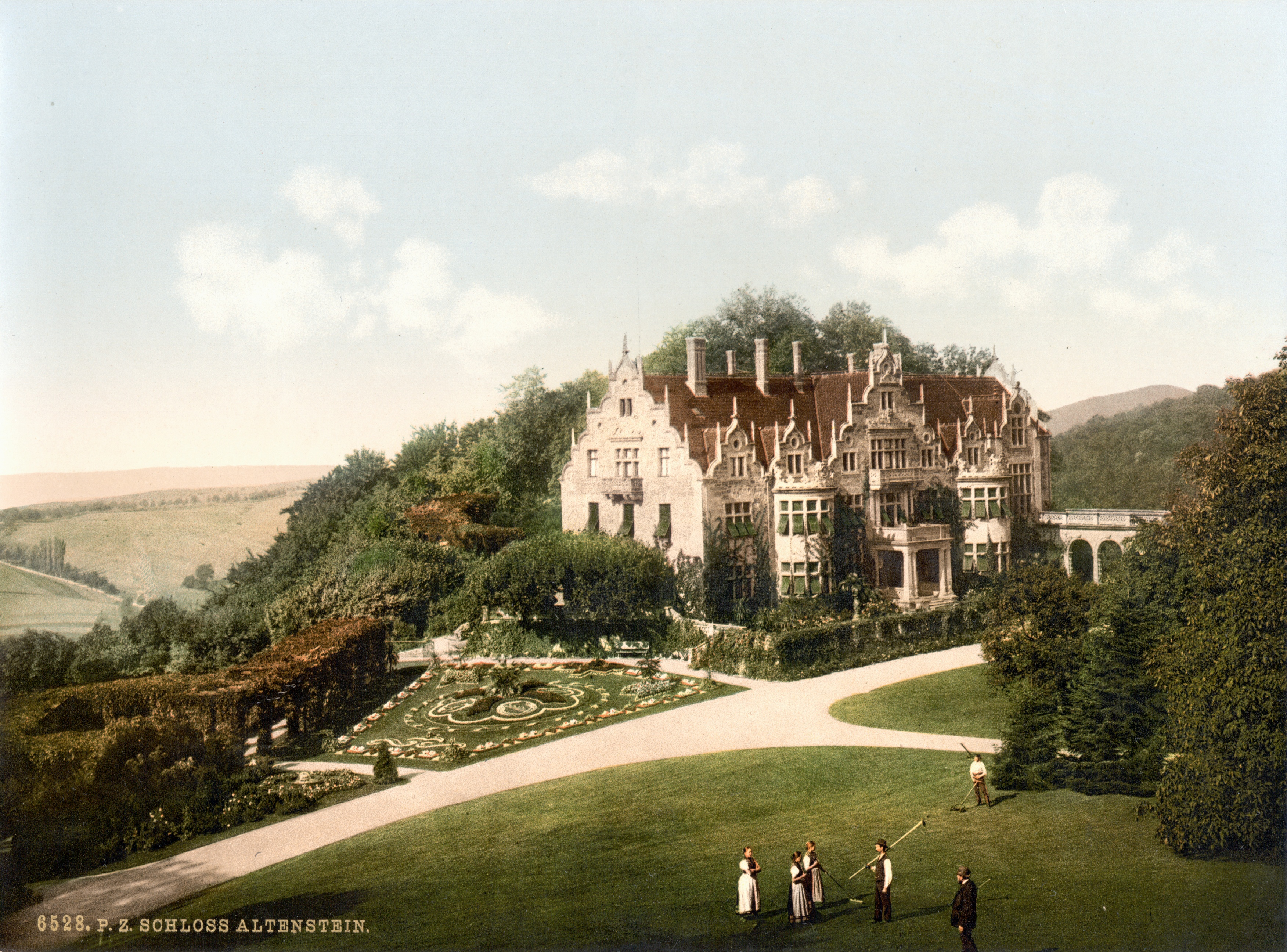 Schloss Altenstein, south-eastern aspect